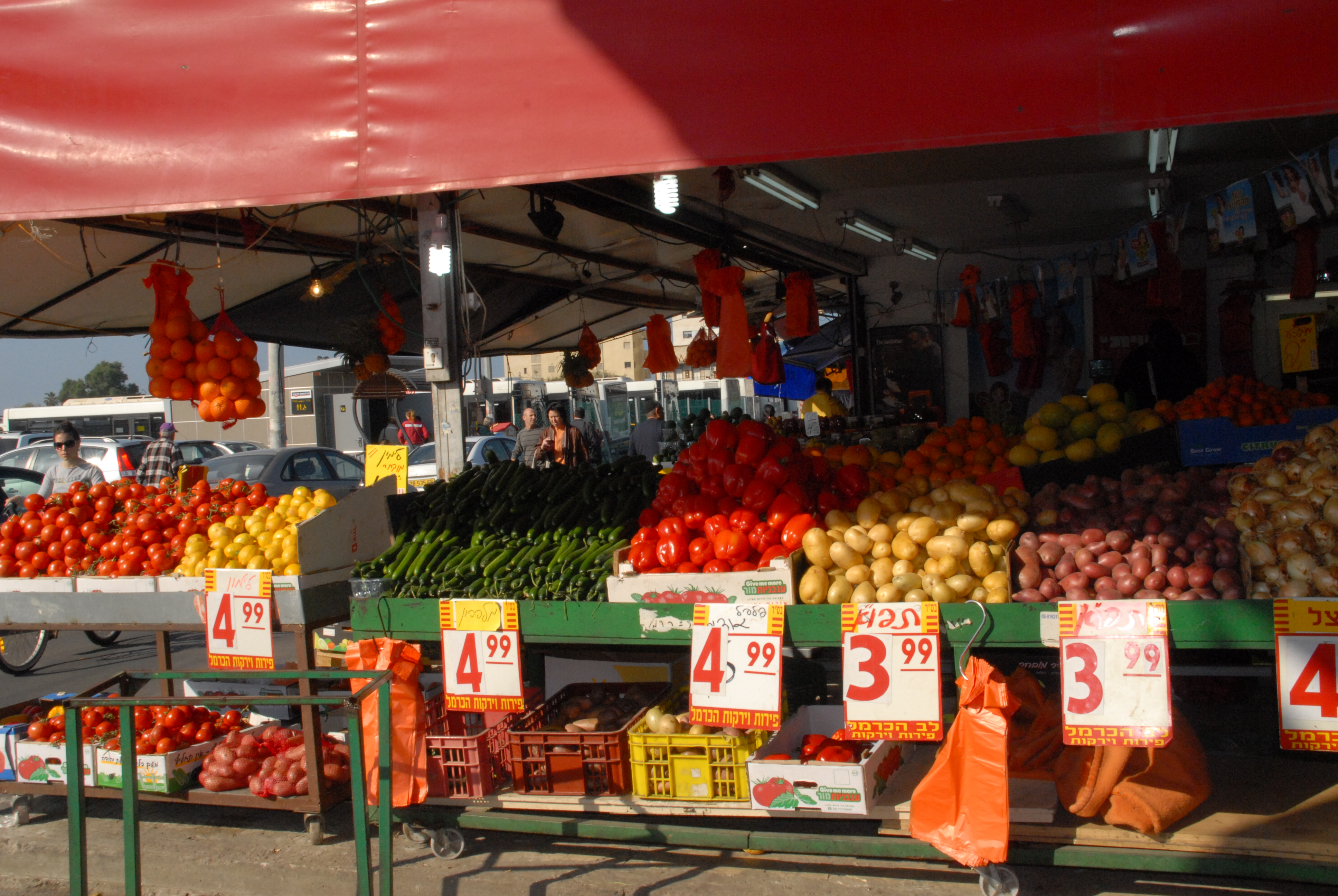 Cities in Israel